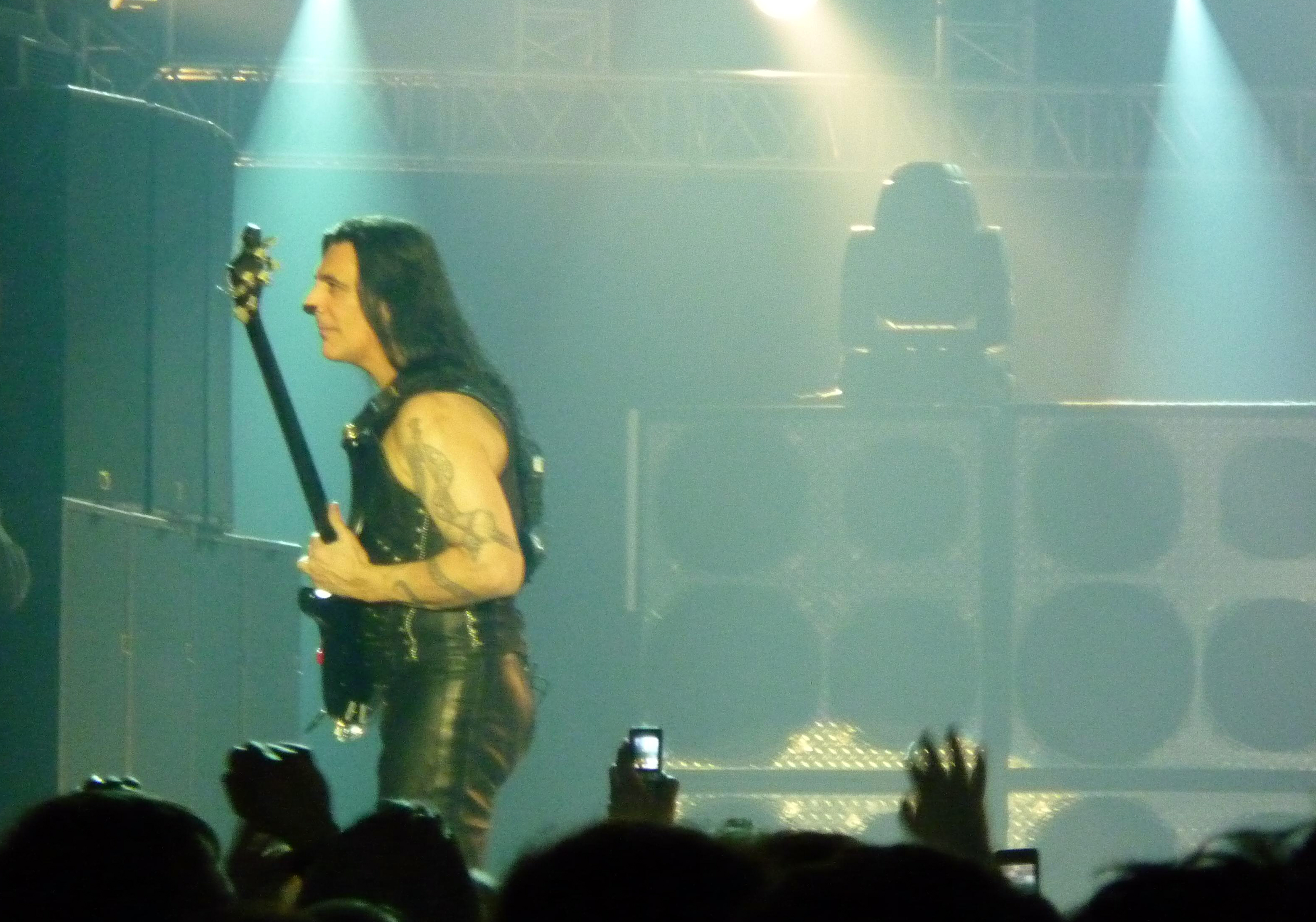 Joey DeMaio